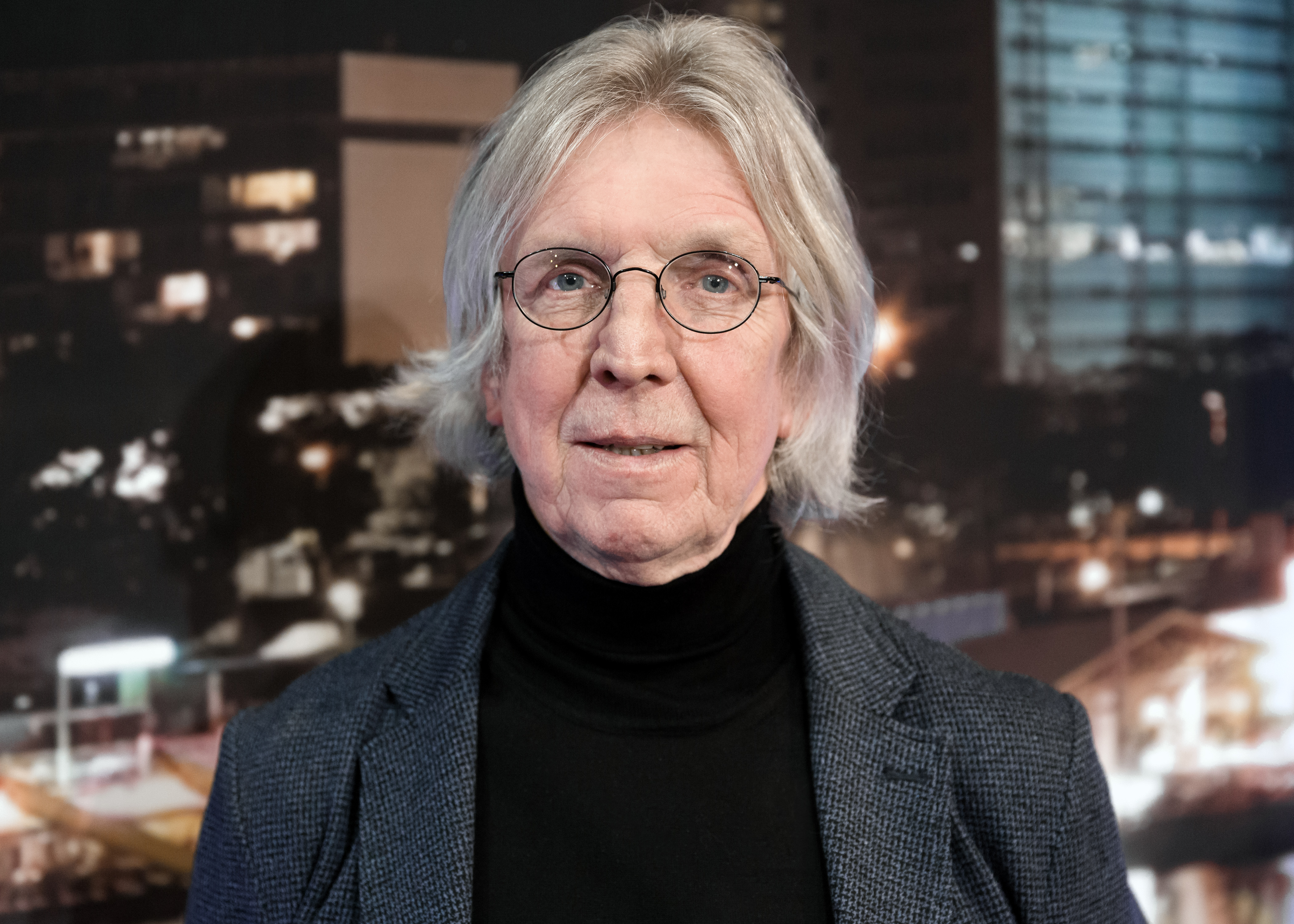 Gerhard Haderer, Austrian Cabaret Award 2016 at Urania in Vienna, Austria.